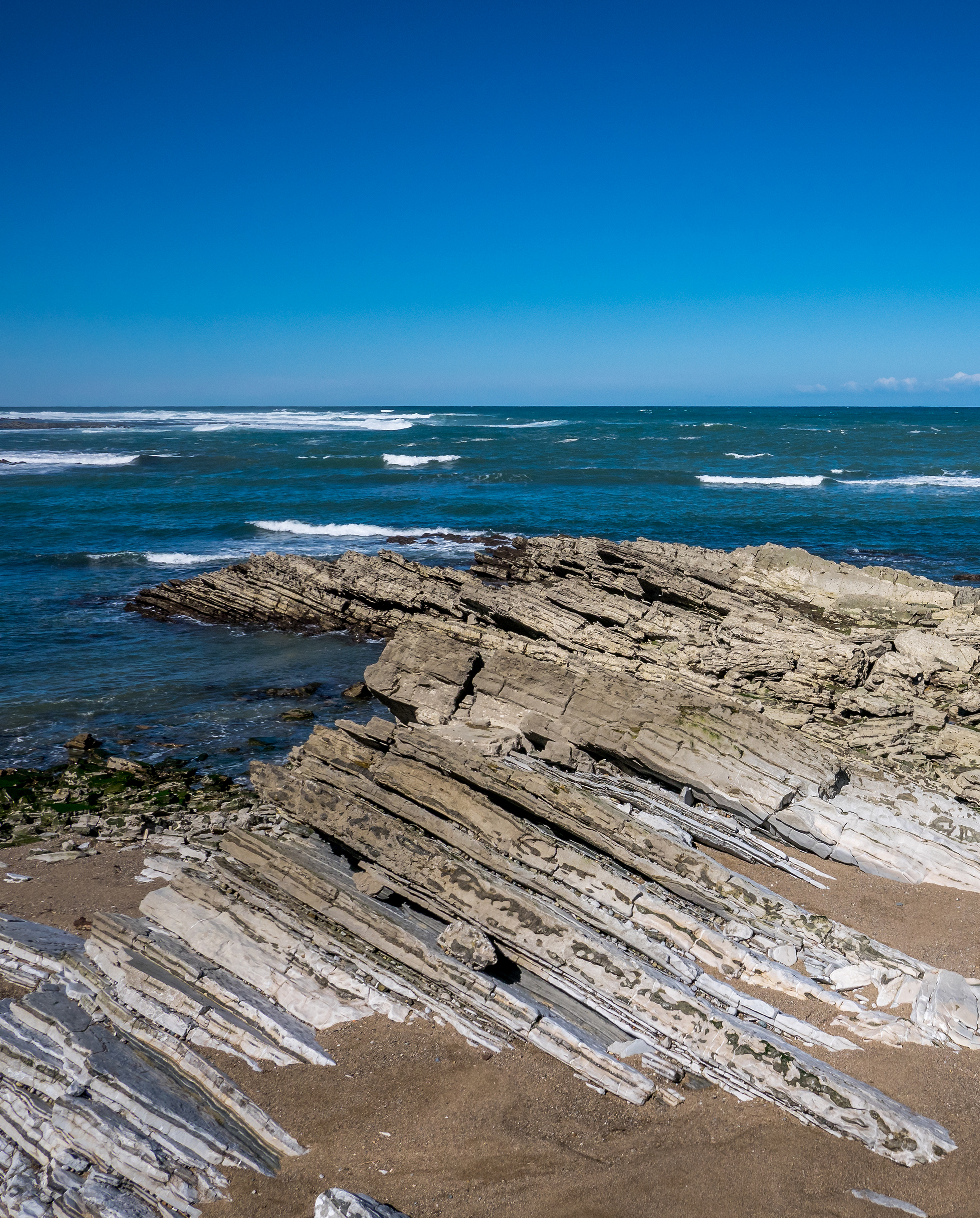 Flysch near the port of Guéthary. Pyrénées-Atlantiques, France